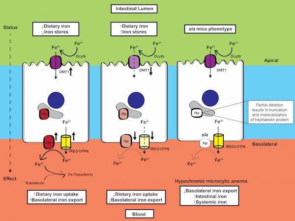 Regulation of hephaestin expression and impairment of hephaestin function in sla mice.